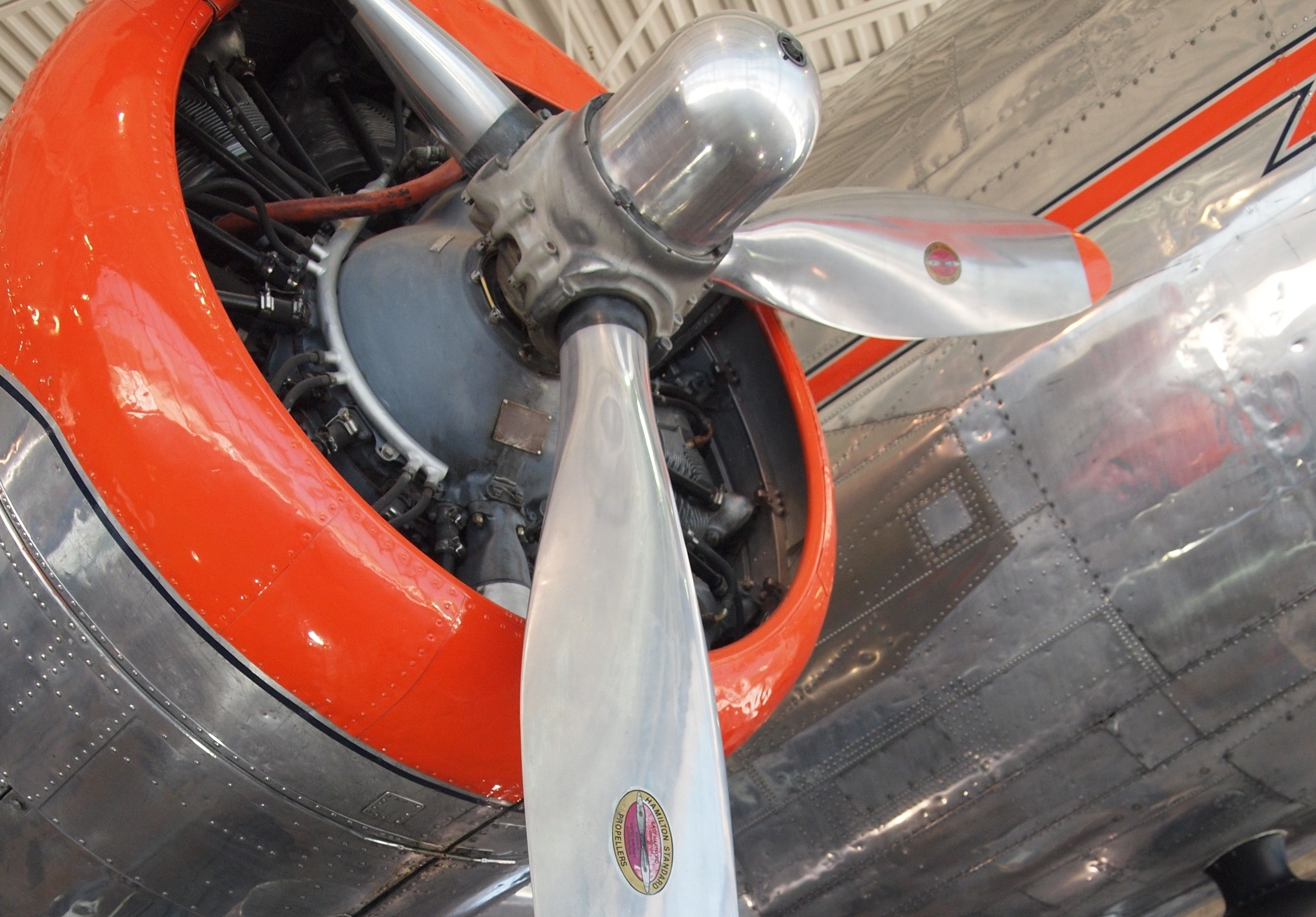 Wright R-1820 Cyclone 9 and Hamilton Standard propeller of American Airlines Douglas DC-3 "Flagship Knoxville" at the American Airlines C.R. Smith Museum.